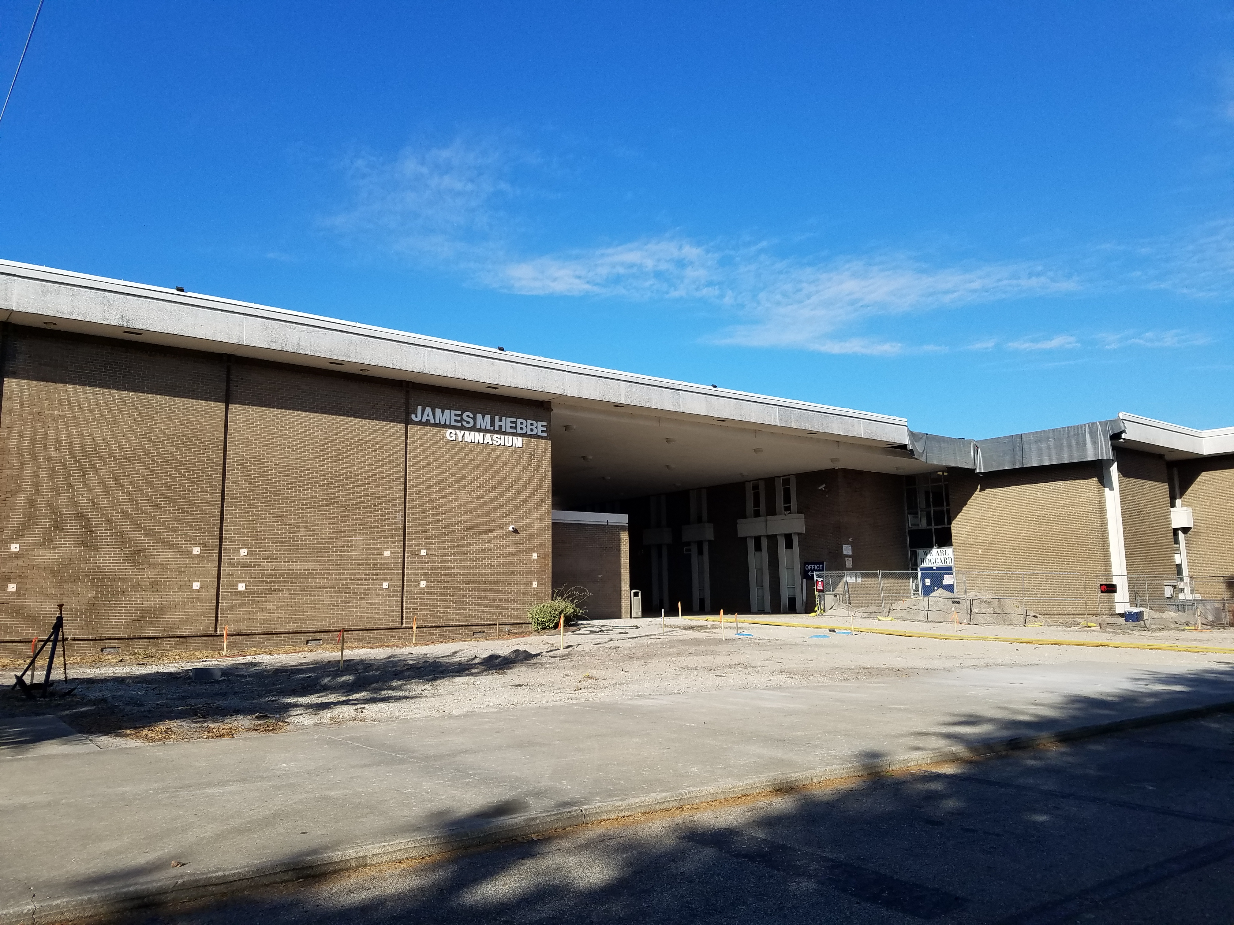 Front side and gym (both under construction when photographed) at John T. Hoggard High School, a public high school in the New Hanover County School System in Wilmington, North Carolina.